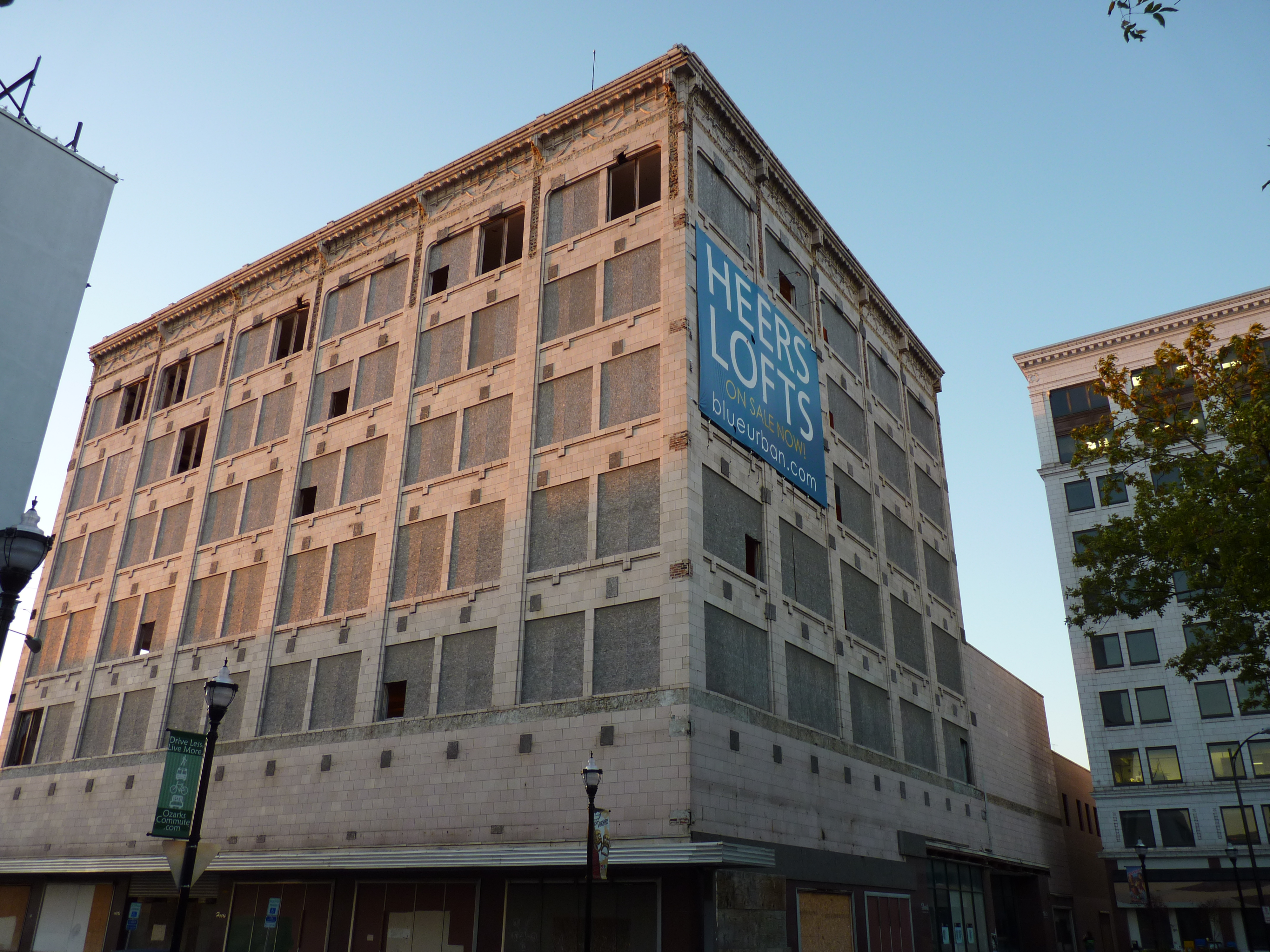 Old Heer's Department Store on Route 66 in Springfield, Missouri